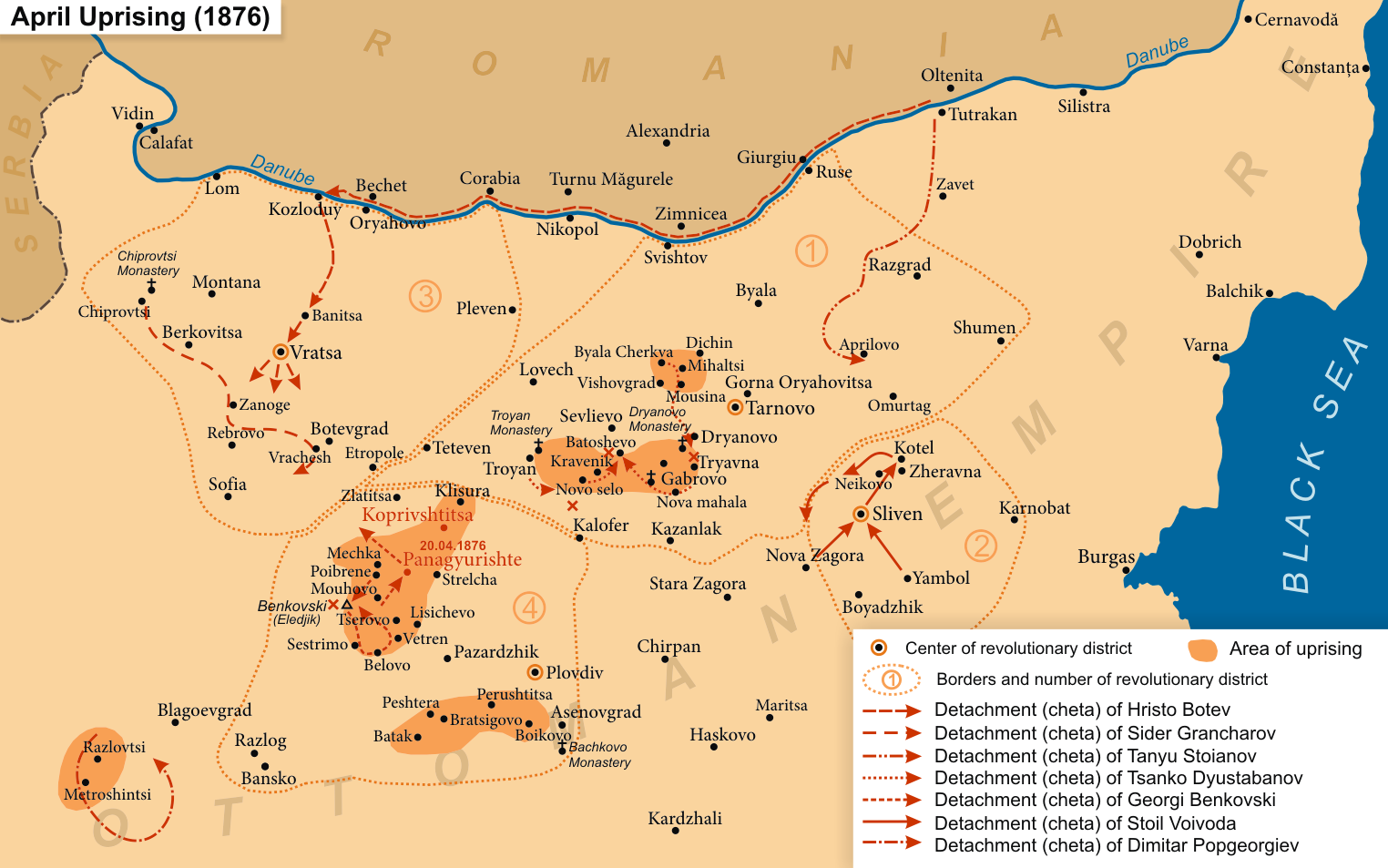 April Uprising Based on map "Априлско въстание — 1876" in atlas "Атлас по история на България за средните училища", "Картография", София, 1990 г.